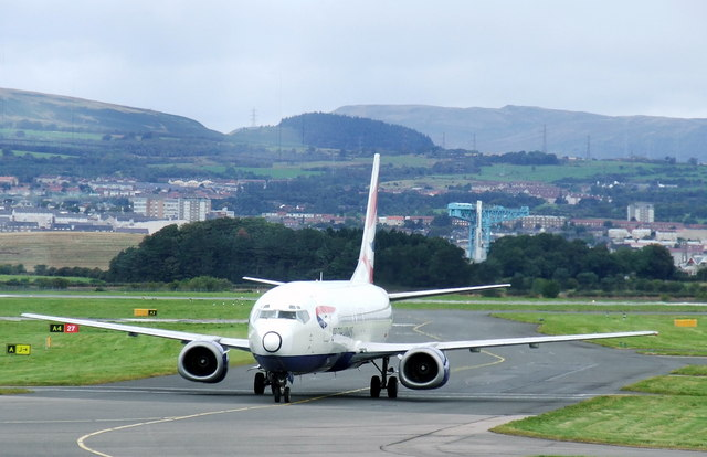 Taxiway at Glasgow Airport. This taxiway is to the east of the main runway. The Titan Crane 483173 at the former John Brown's shipyard in Clydebank and the Campsie Fells can be seen in the distance.